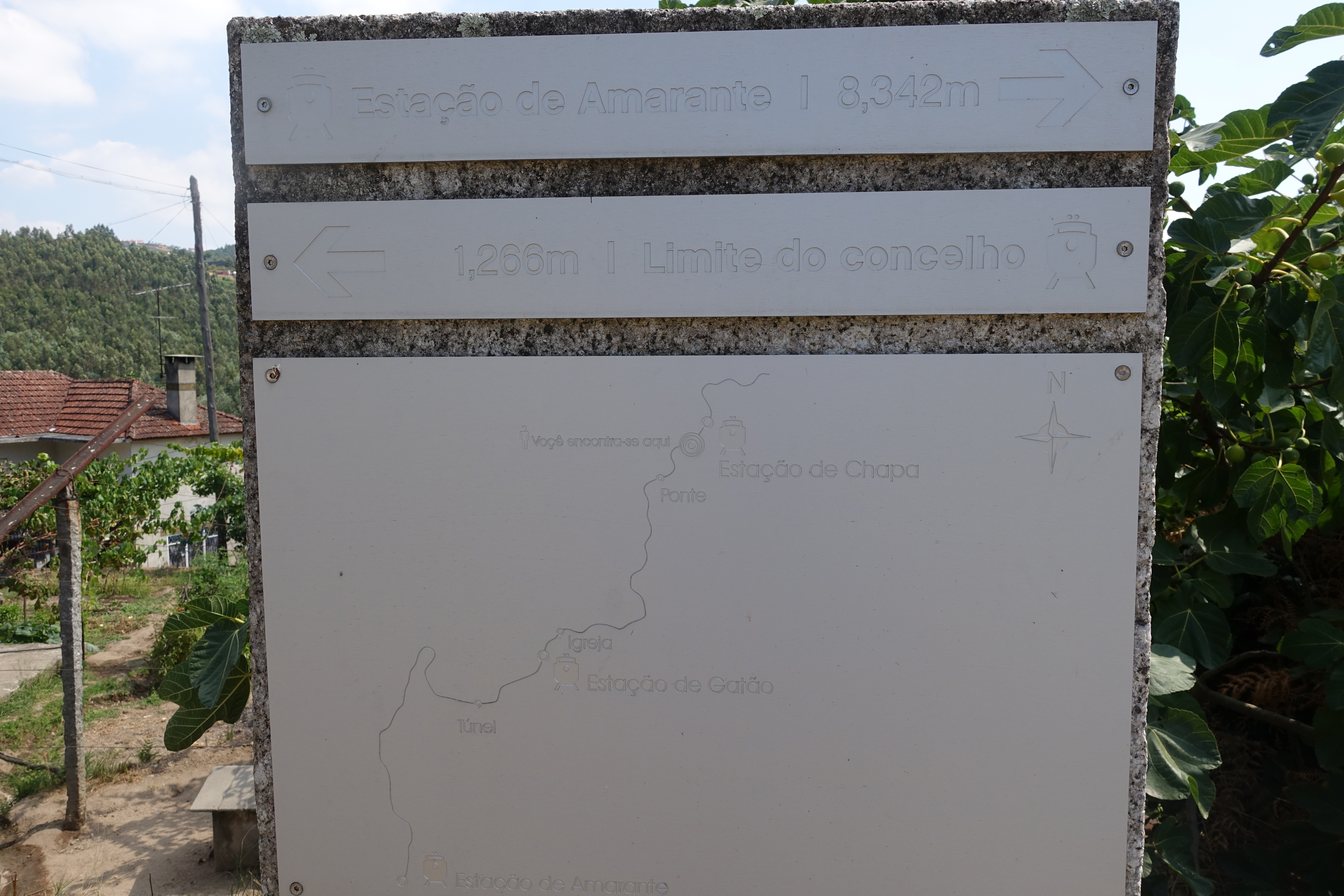 Ecopista do Tâmega, Portugal.